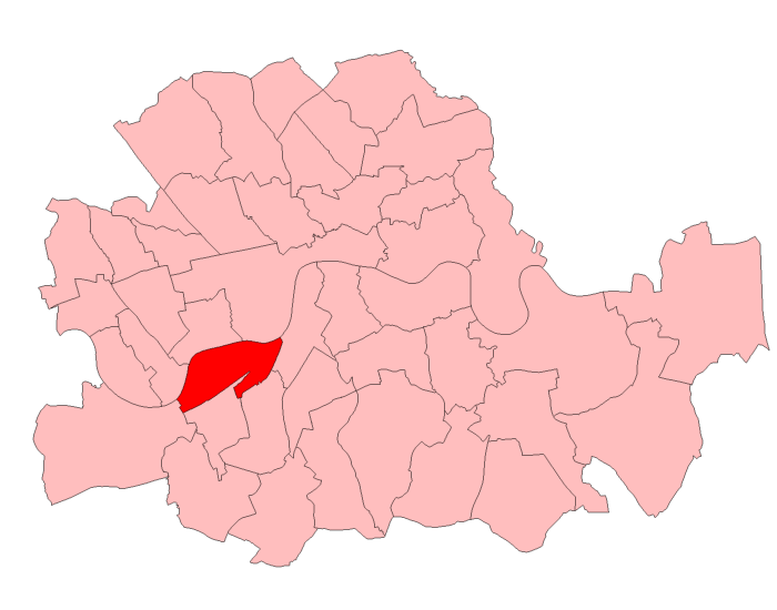 A map of Battersea North constituency within the London County Council area, as it existed from 1950 to 1974.